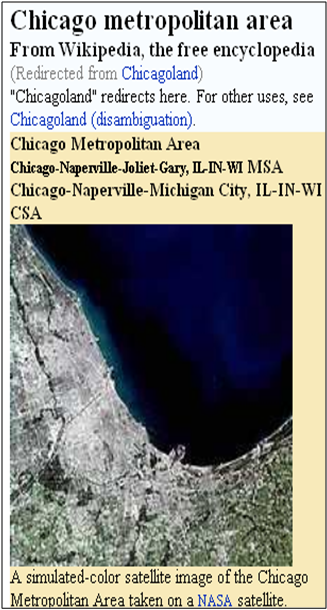 Screenshot of Vision mobile web browser screen shot of Wikipedia Chicagoland page. it includes a photo of a NASA satellite picture of the Chicago Metro area.